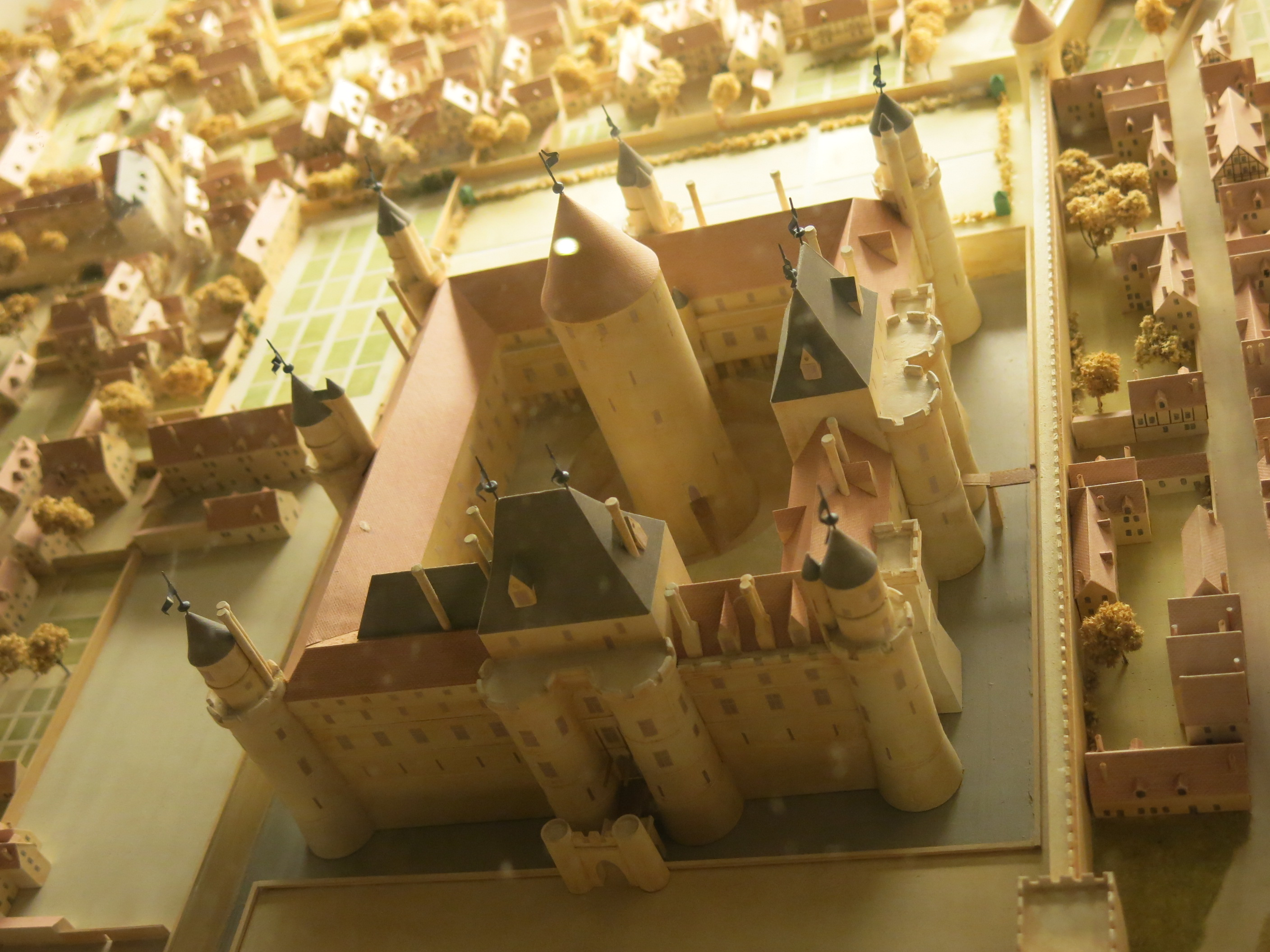 Model of the Louvre castle at the entrance of the medieval Louvre (Paris, France). Seine river is at the bottom of the photo and the town of Paris on the right.